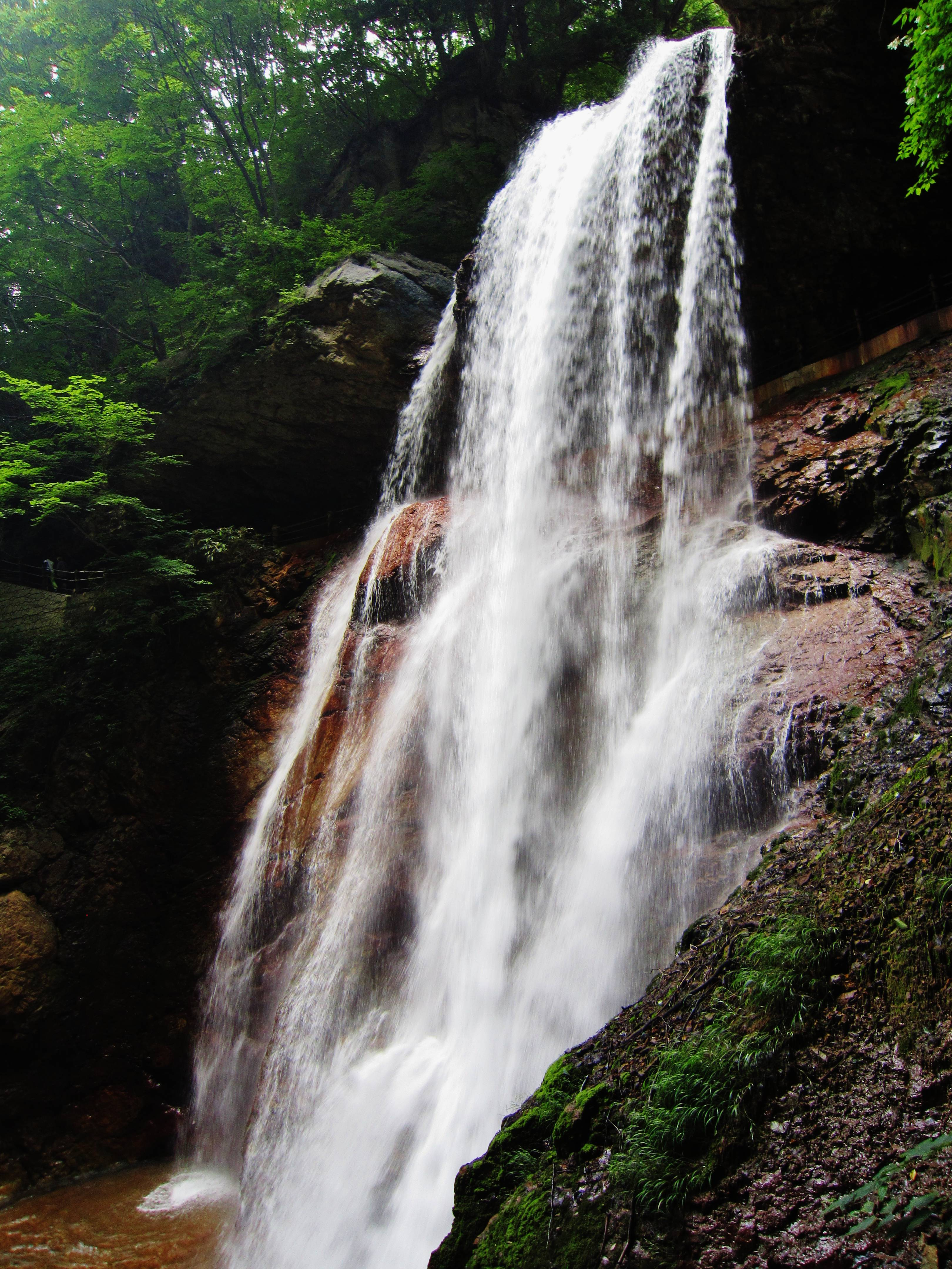 Kaminari Falls.